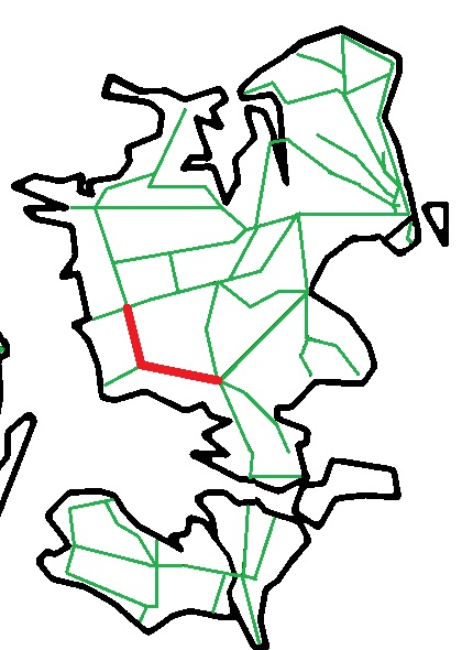 Map of railways on Zealand in Denmark with the state railway Slagelse-Næstved banen in red.